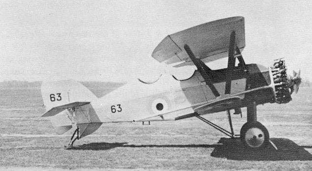 RCAF AW Siskin 2-seat trainer